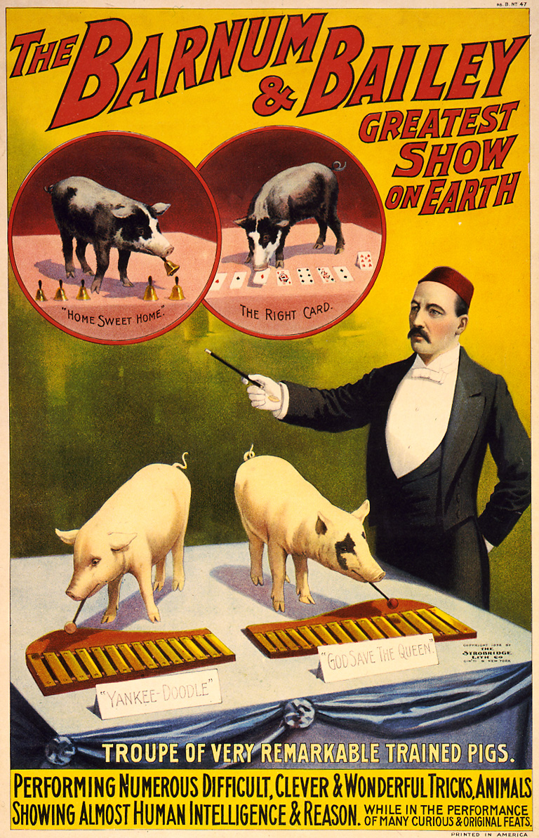 Barnum & Bailey, greatest show on earth -- Troupe of very remarkable trained pigs, performing numerous difficult, clever and wonderful tricks, animals showing almost human intelligence and reason, while in the performance of many curious and original feats ("Home Sweet Home", "The Right Card", "Yankee Doodle", "God Save the Queen").